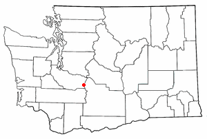 Map of Washington, Chinook Pass Modified from Wikipedia's WA county maps by localhost00.